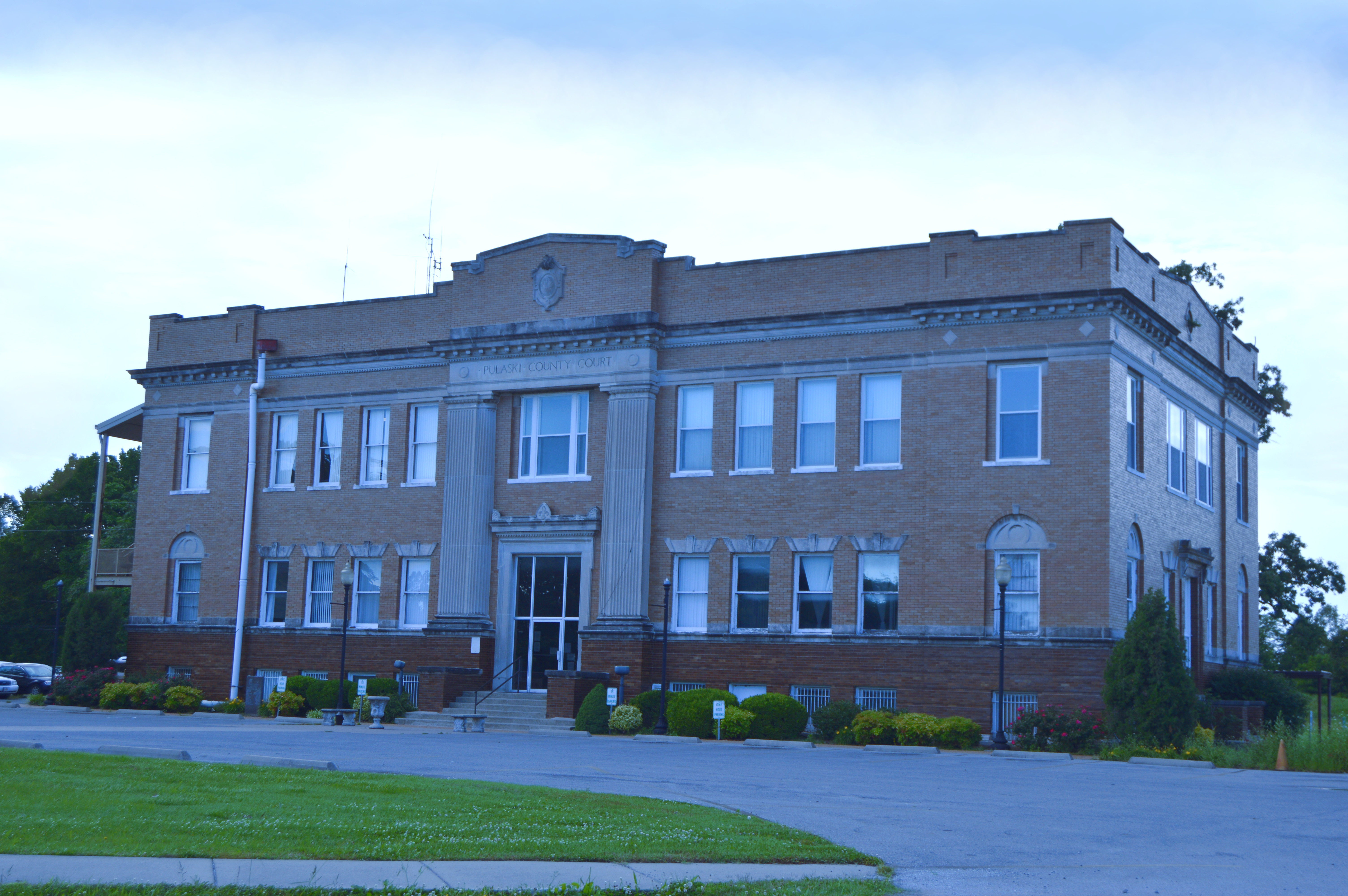 Front and eastern side of the Pulaski County Courthouse, located at 500 Illinois Avenue in Mound City, Illinois, United States. It was built in 1912.